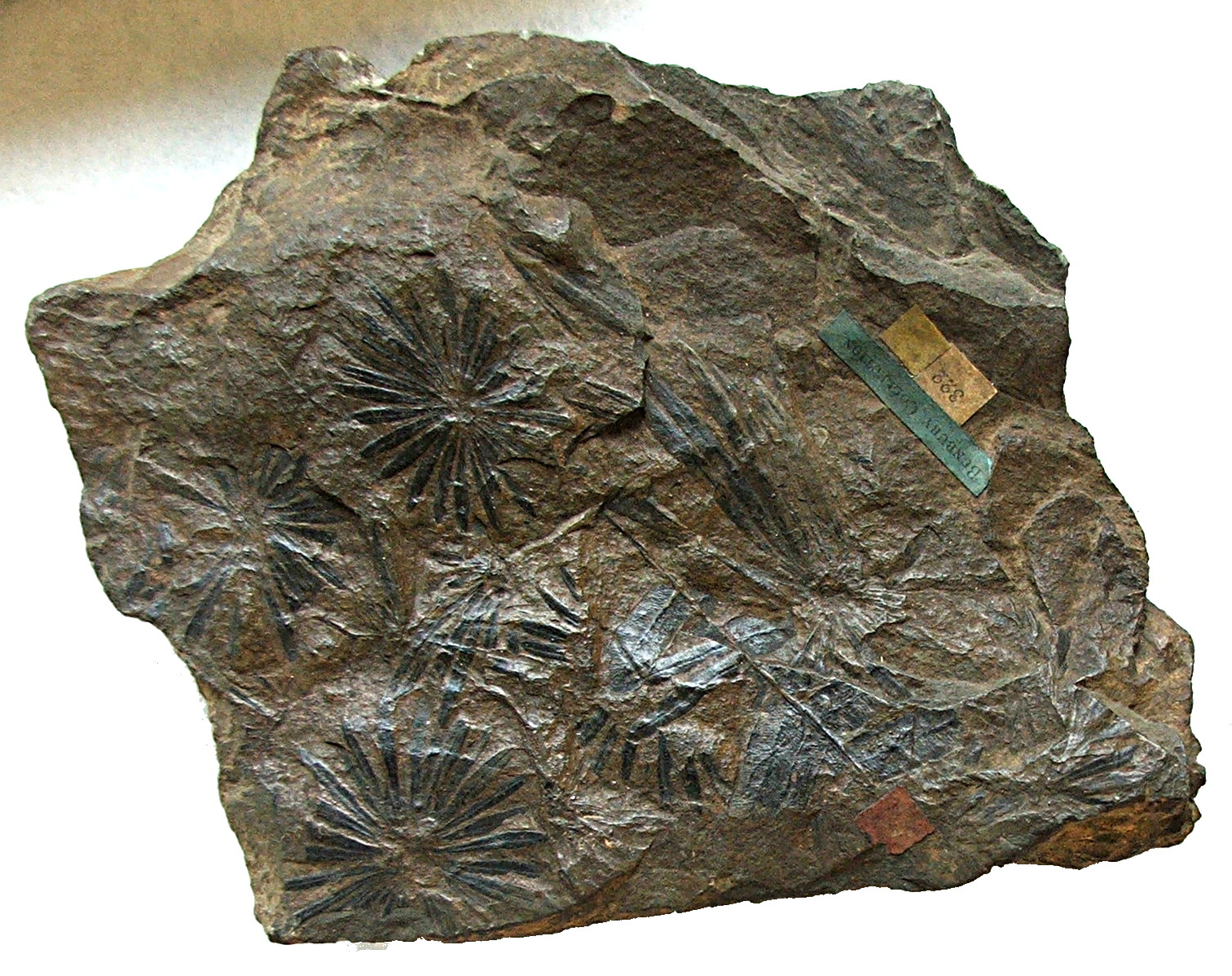 Calamitaceae foliage, from the Sedgwick Museum's collection.